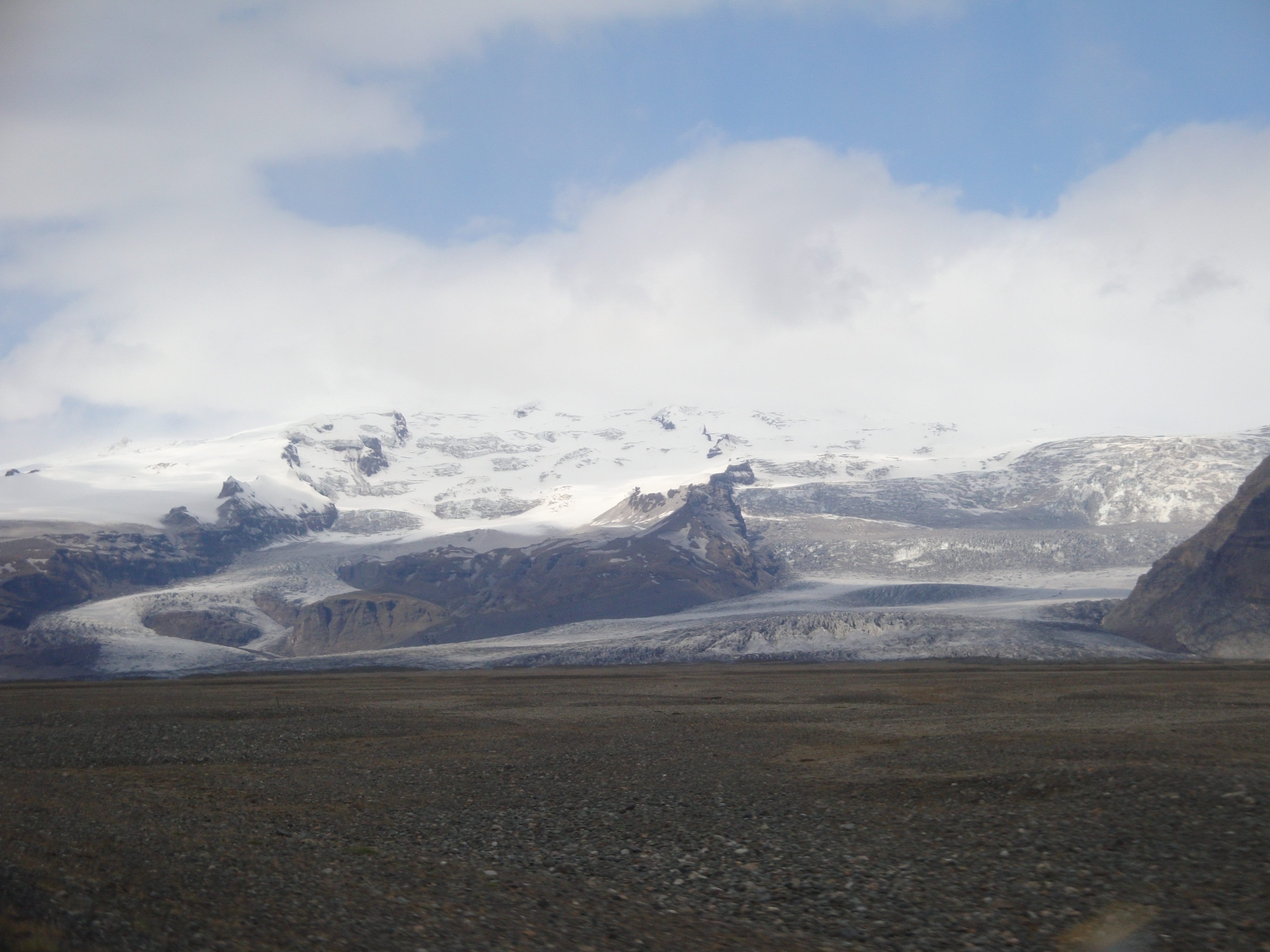 View from the ring road over Fláajökull, Iceland